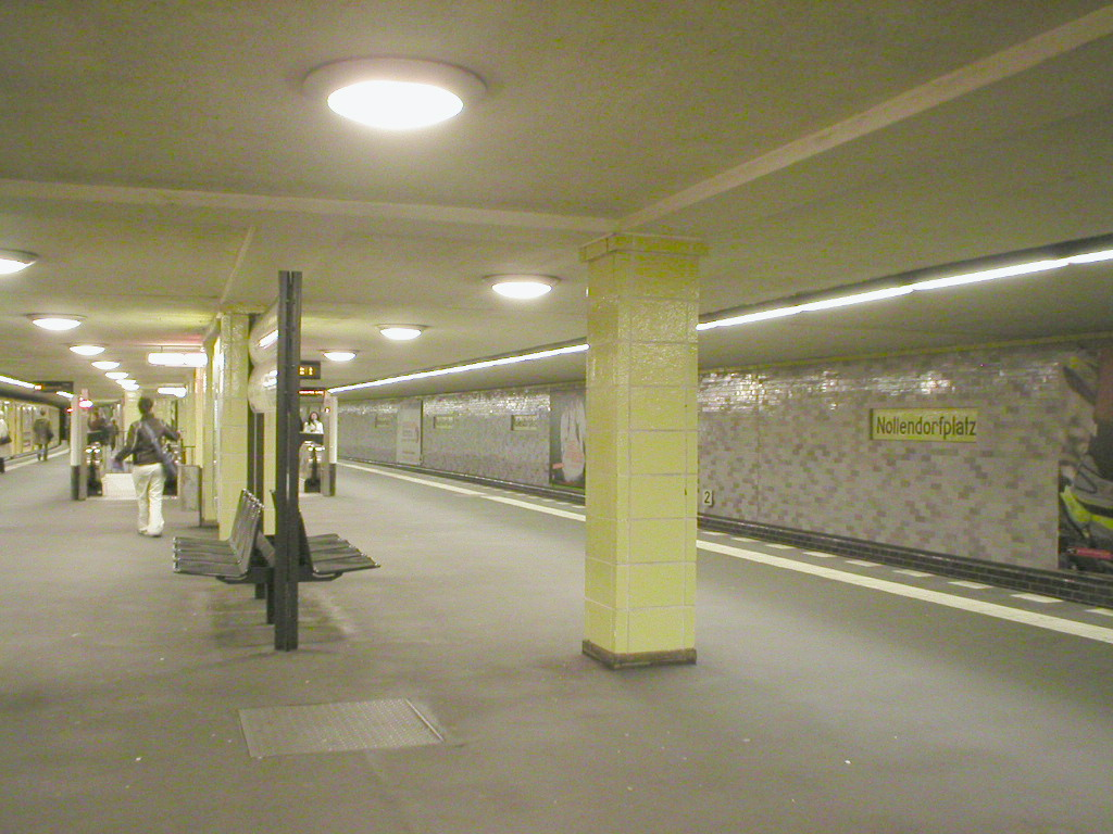 U-Bahnhof Nollendorfplatz, Berlin, line U1, U3 ans U4 platform -1